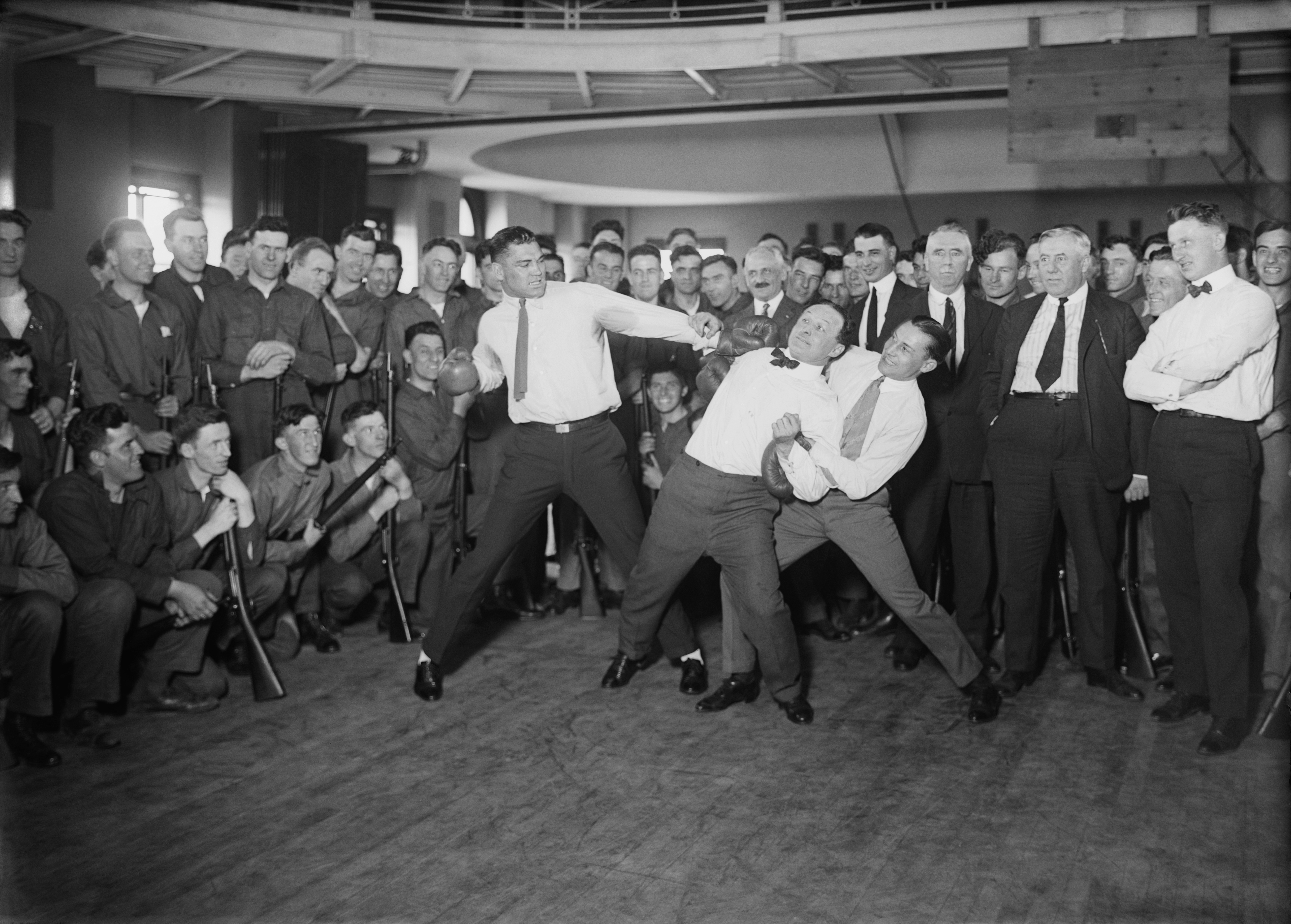 "Dempsey, Houdini, Leonard (boxing)". 1 negative : glass ; 5 x 7 in. or smaller. Jack Dempsey (l), Harry Houdini (center), and Benny Leonard (r) spar at a publicity event.